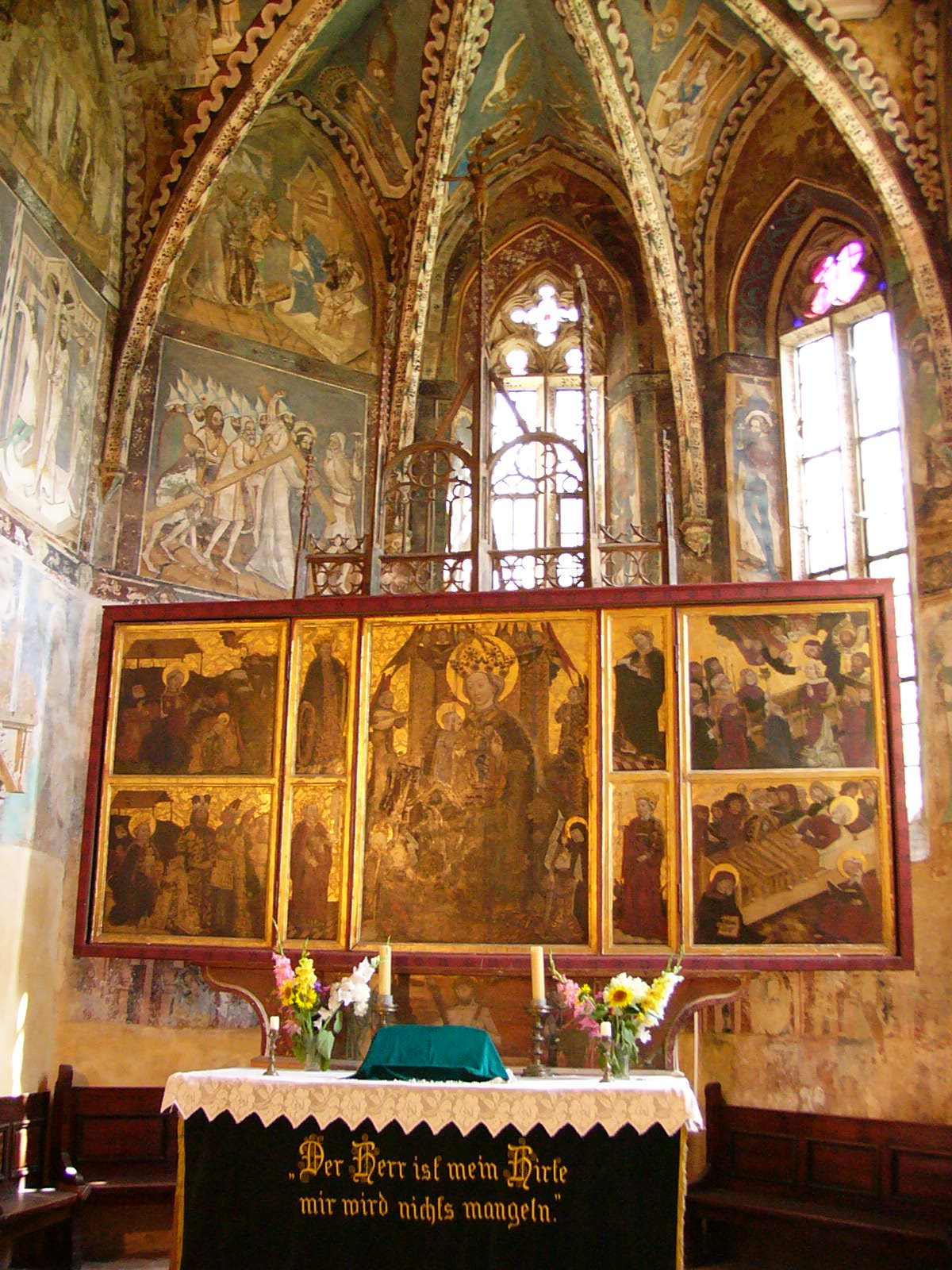 almakerek, lutheran church 01